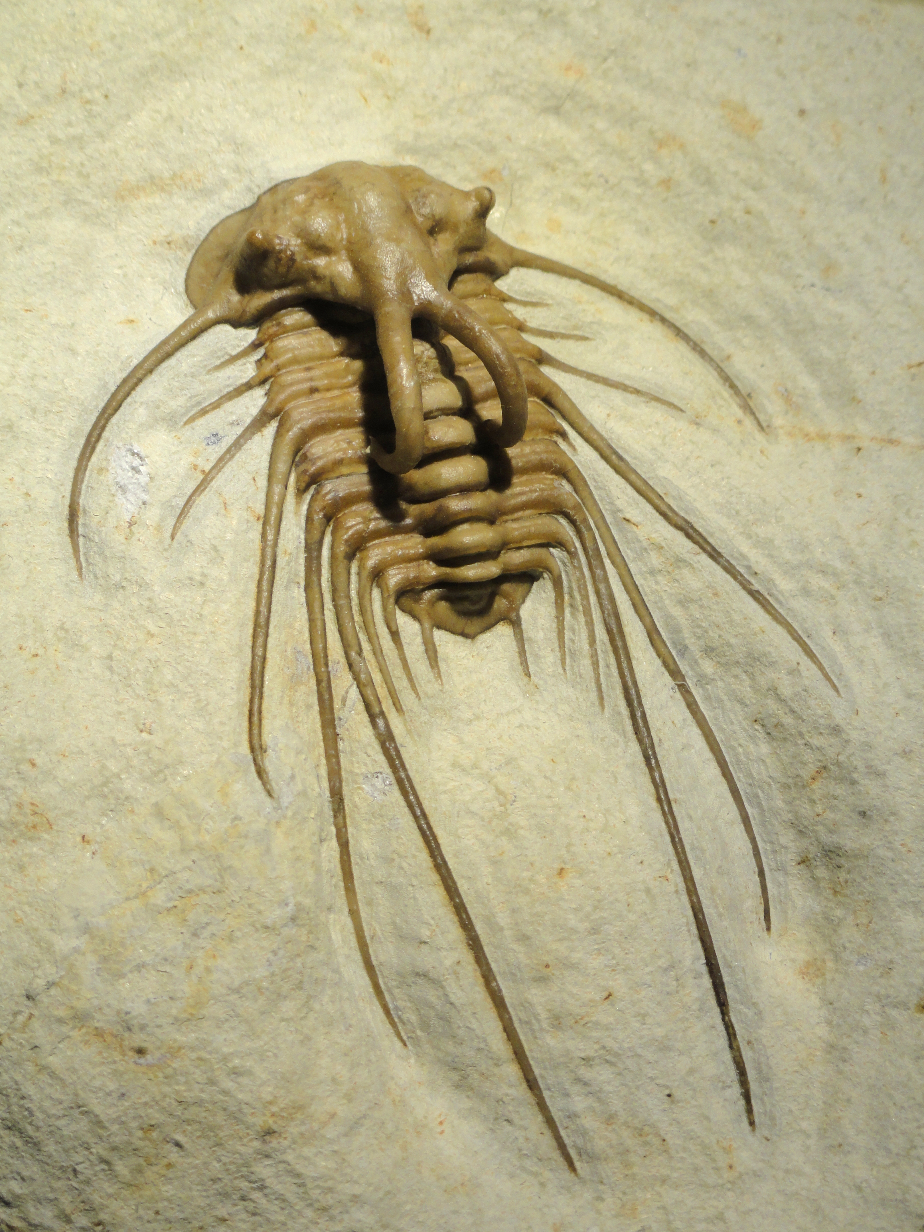 Exhibit in the Houston Museum of Natural Science, Houston, Texas, USA.